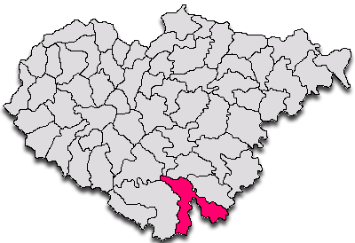 Map Salaj County Romania